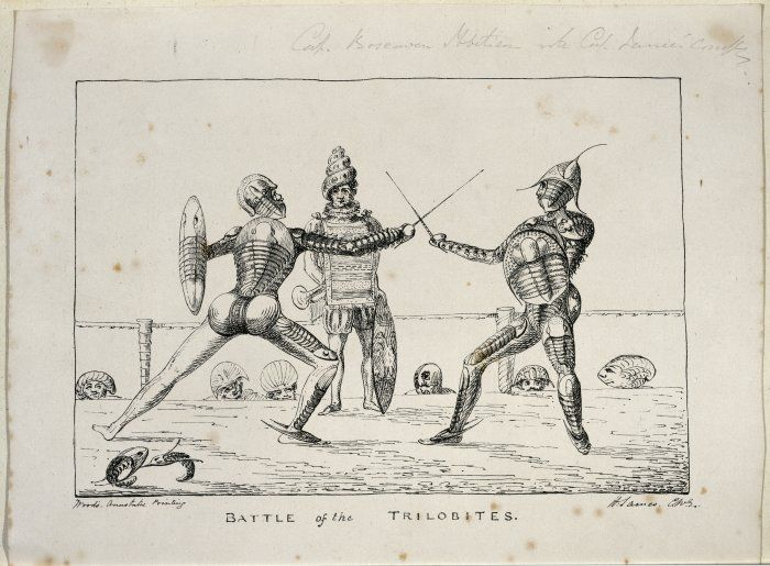 'Battle of the Trilobites.' Two men dueling, dressed in armour comprising trilobite exoskeletons. They are watched by a third man dressed as a medieval herald, but with a shell instead of a helmet. A row of spectators with fossils and shells for hats observes. Inscribed on print by artist Mantell, 'Capt Boscawen Ibbetson with Capt James [illegible]'